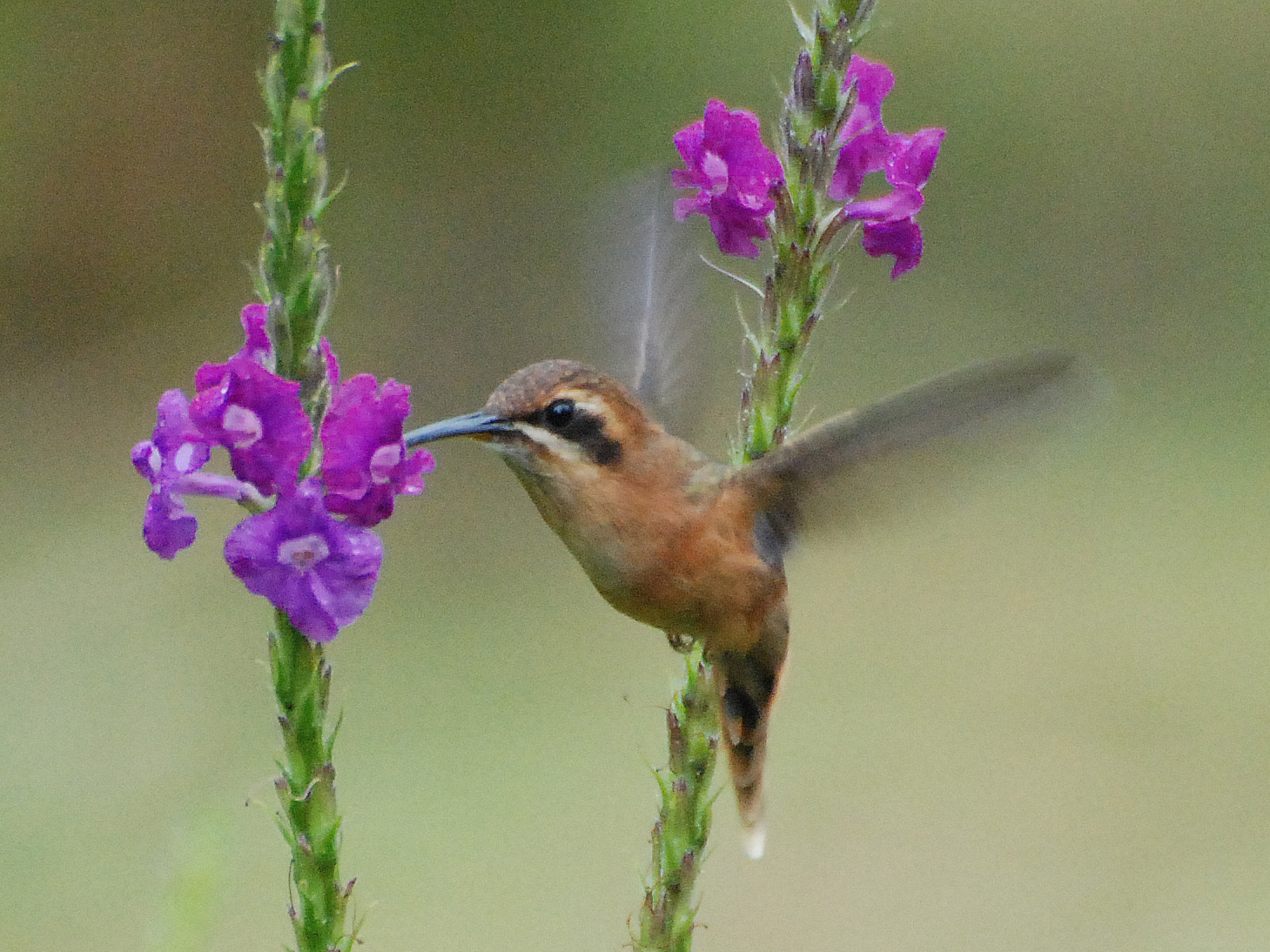 Phaethornis striigularis — Stripe-throated Hermit (hummingbird). At the Arenal Volcano Lodge, Arenal Volcano National Park, Costa Rica, 080224.